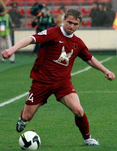 Serhiy Rebrov